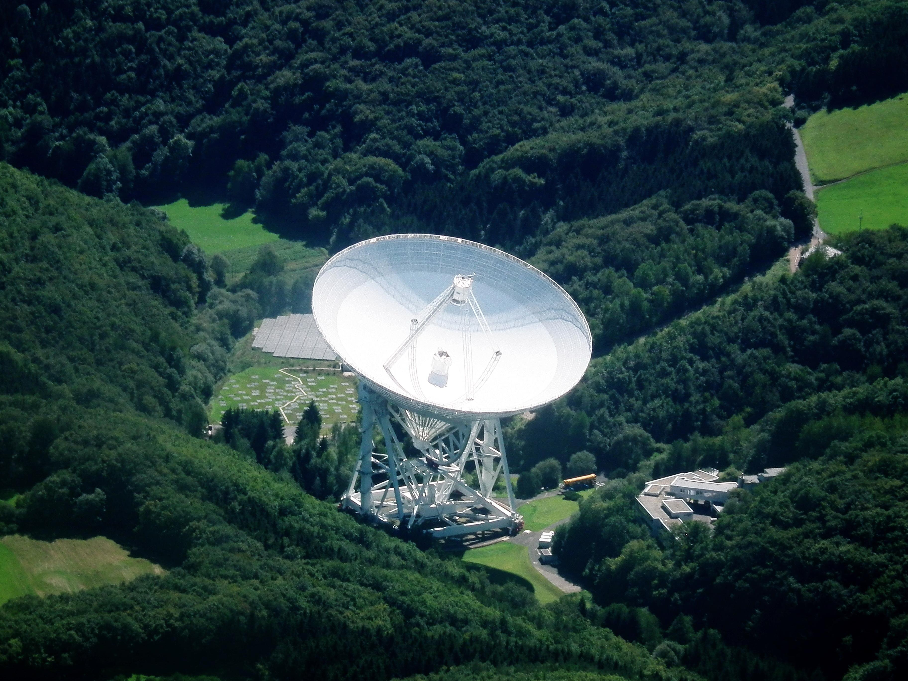 The 100m radio-telescope in Effelsberg, Germany, aerial image 2011.